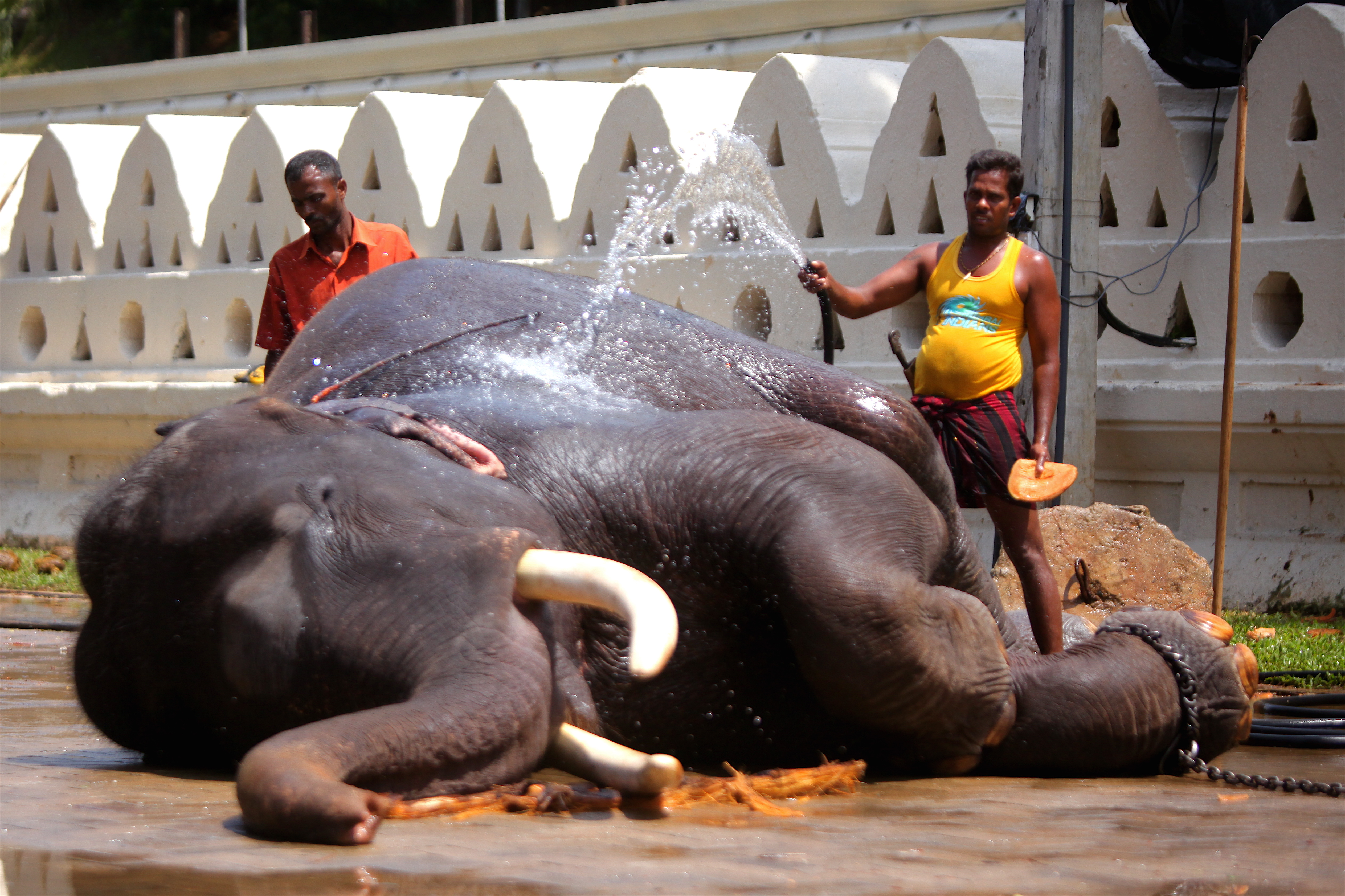 An elephant gets pampered and showered ahead of one of Sri Lanka's most famous Buddhist festivals, the Perahera in Kandy. During the evening celebrations, the elephants will be adorned with lavish garments.